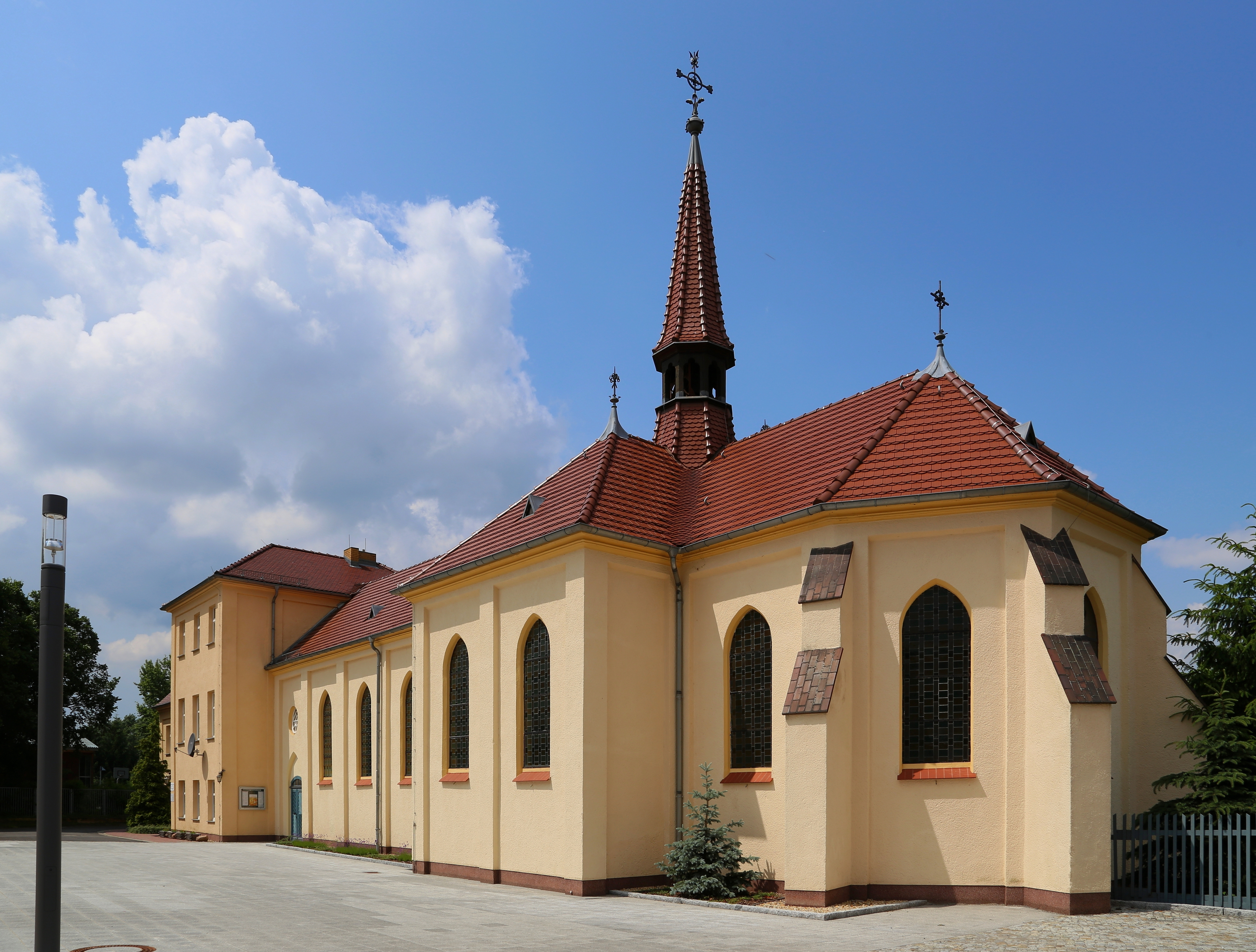 The Roman Catholic St Trinitatis Parish Church (Pfarrkirche St. Trinitatis) in Lübben, Landkreis Dahme-Spreewald, Brandenburg, Germany.